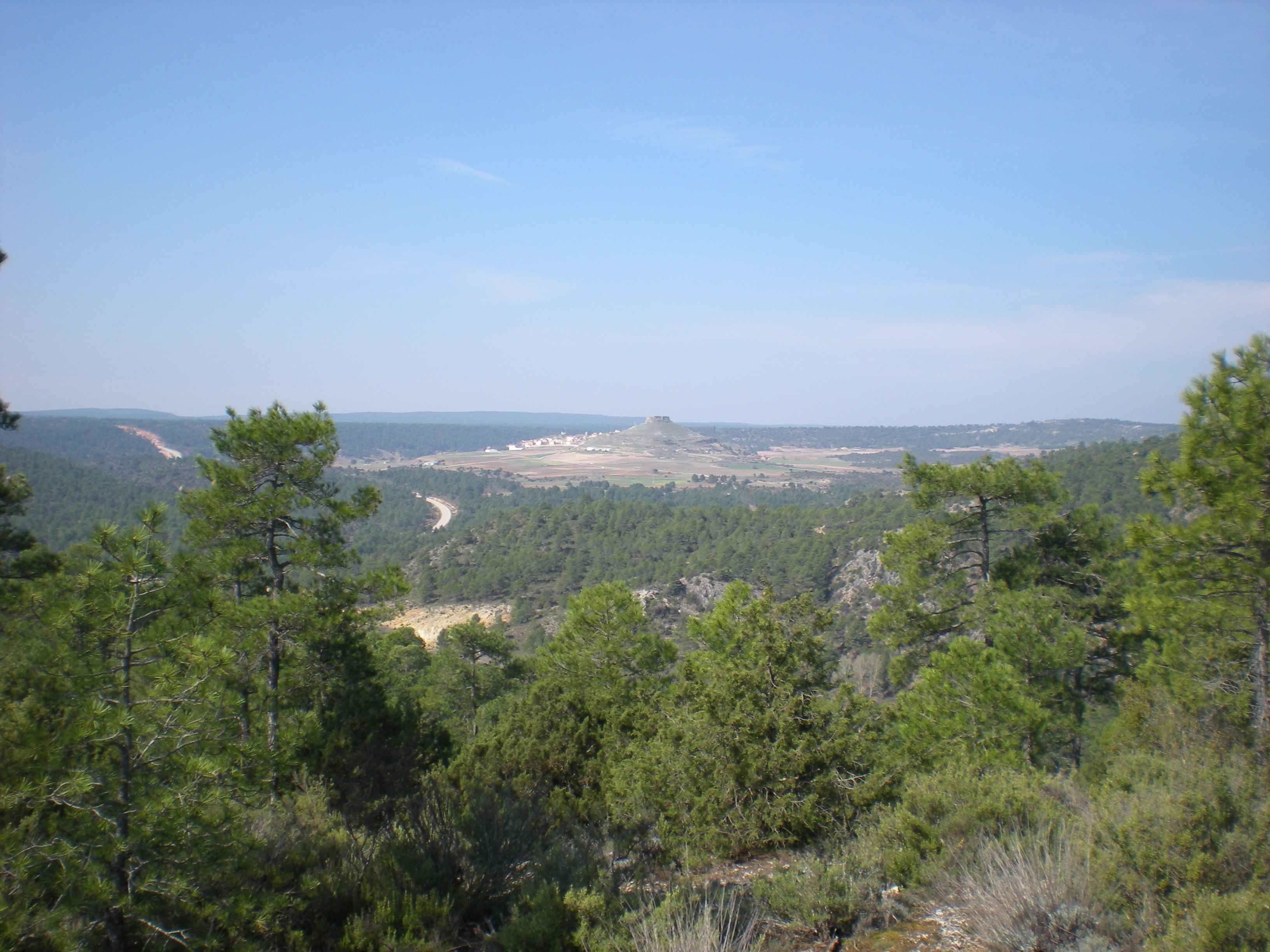 Picture of Monteagudo